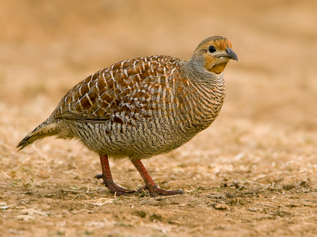 Grey Francolin at Bangalore, India